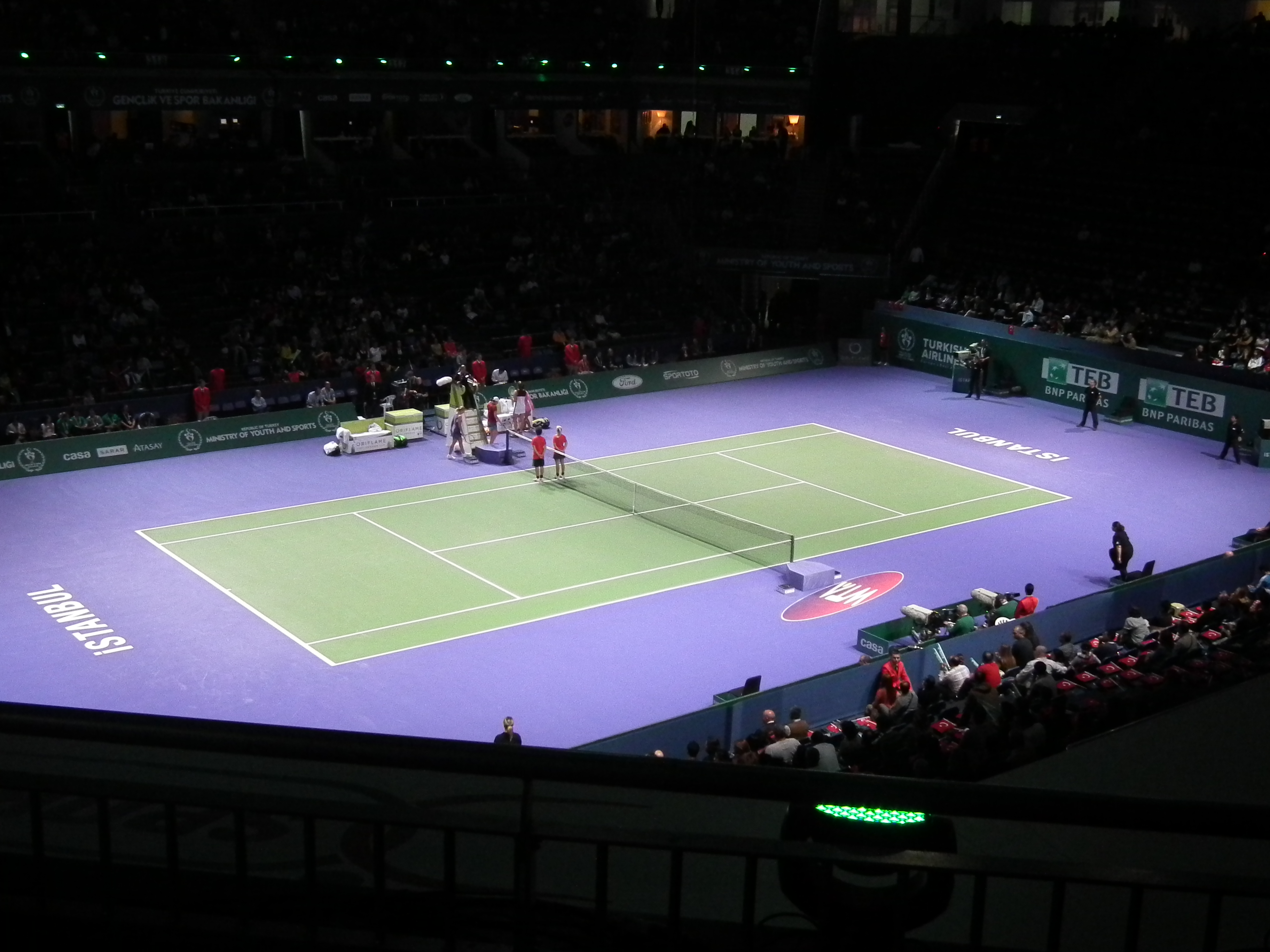 Photo from 2011 WTA Tour Championships at Sinan Erdem Dome, Istanbul